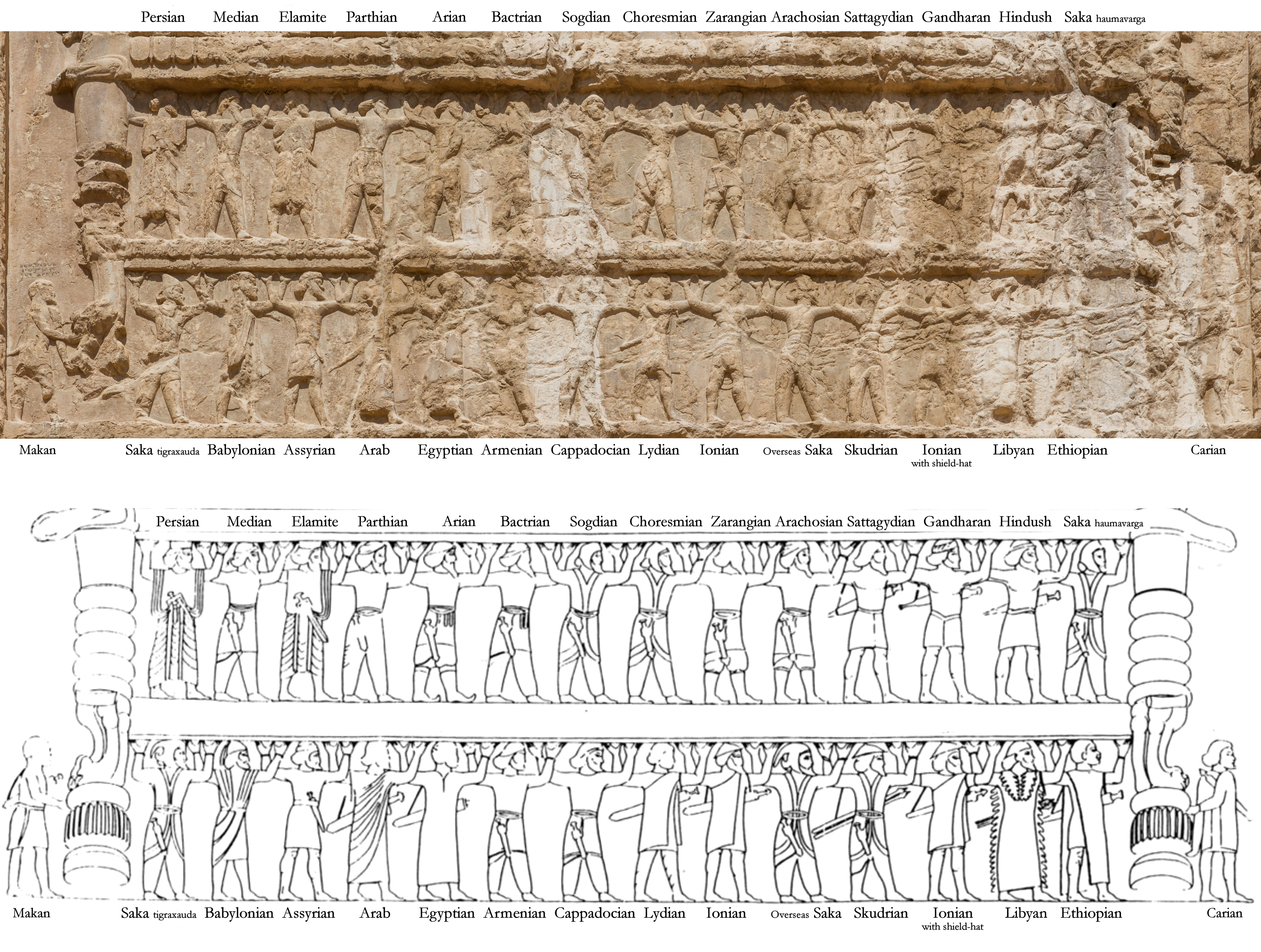 Armies of Darius I